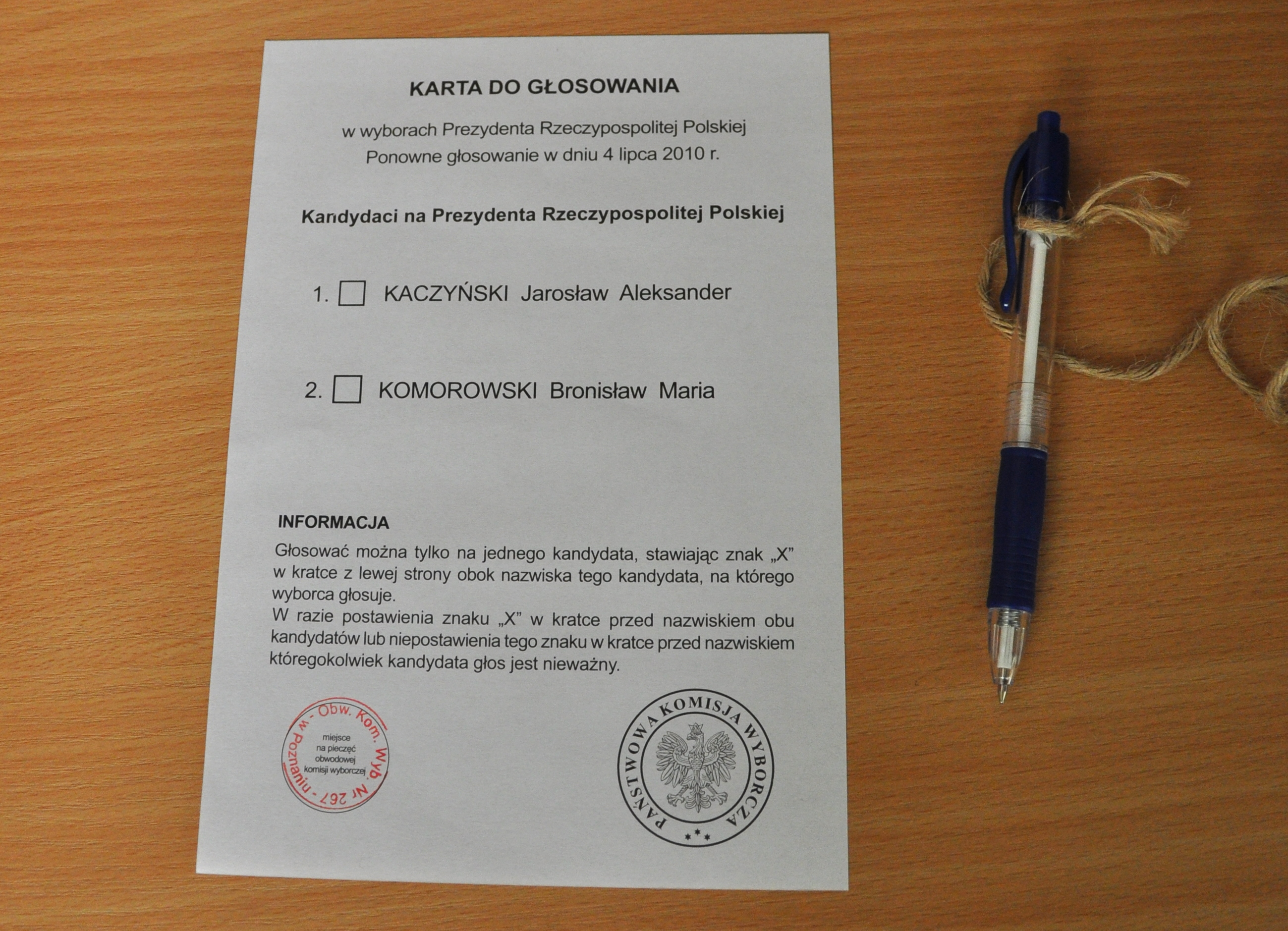 Voting card in Polish presidential elections (2. tour) in 2010